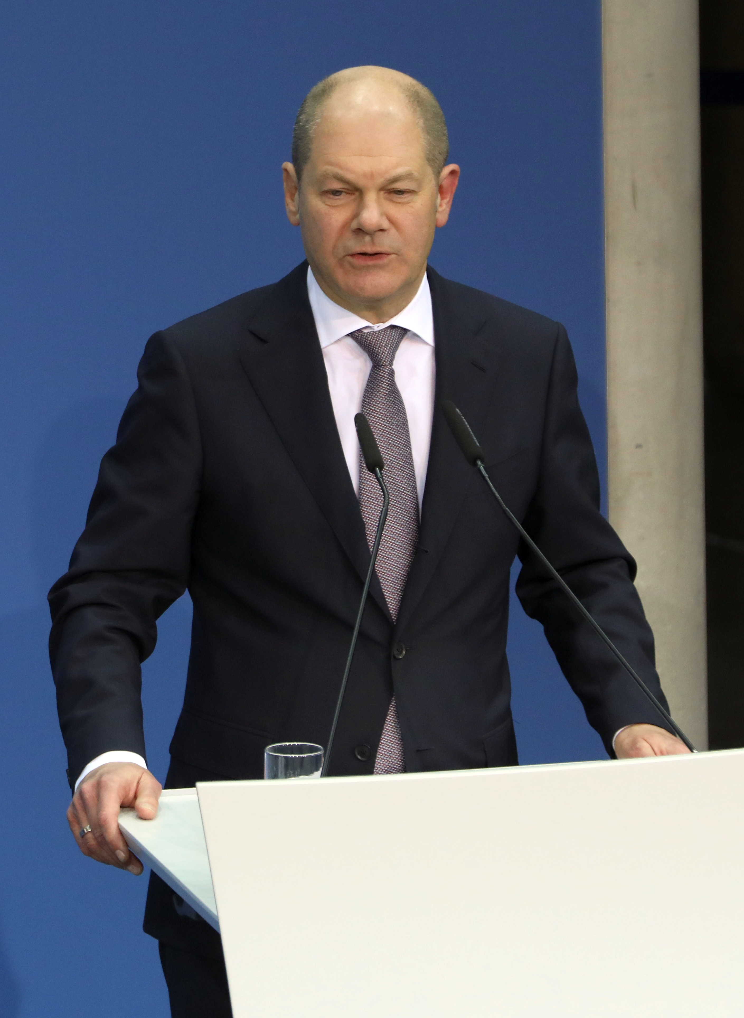 Signing of the coalition agreement for the 19th election period of the Bundestag: Olaf Scholz